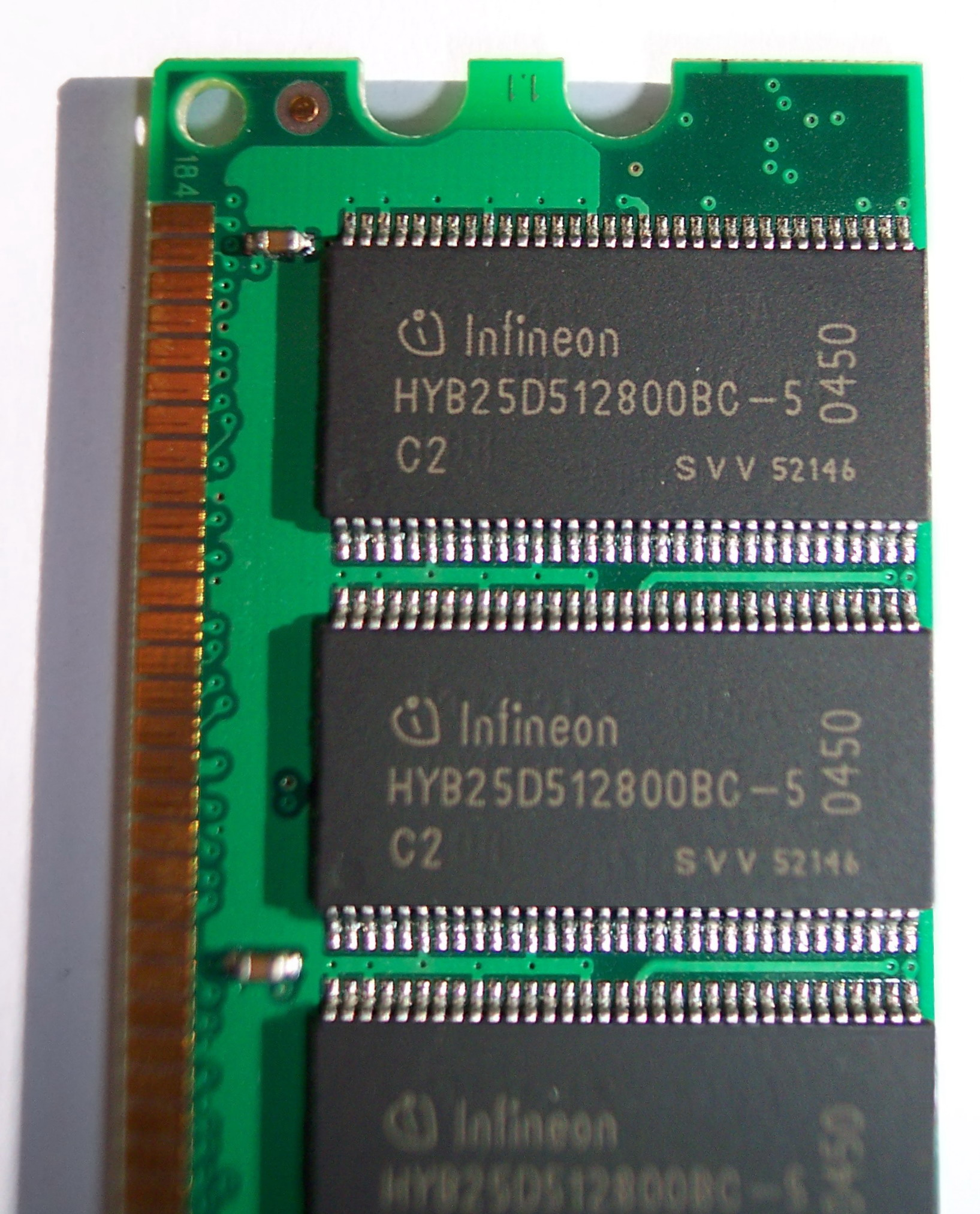 A 1 GB DDR RAM memory (400MHz PC3200 brand, Infineon)